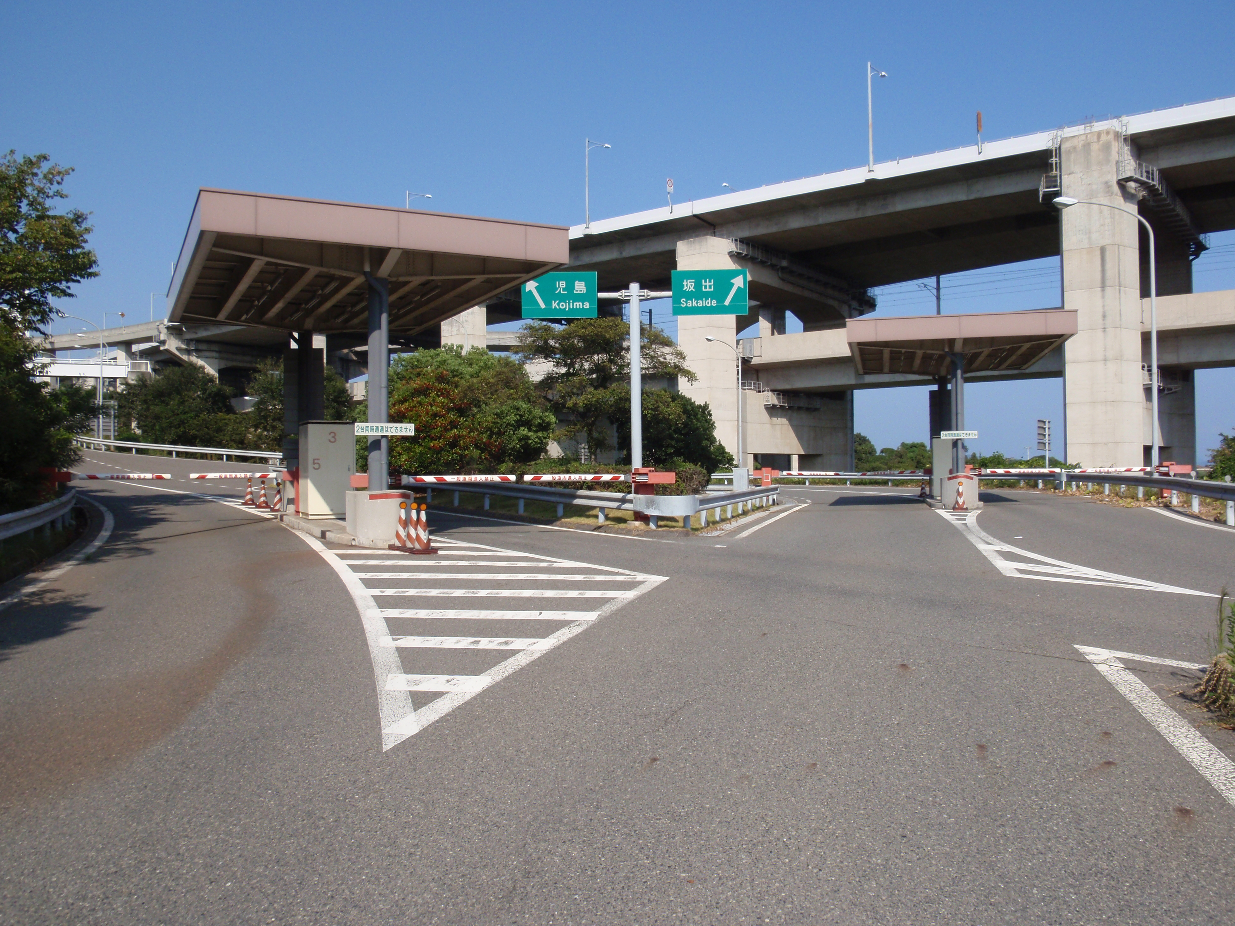 Gates at Hitsuishijima Interchange